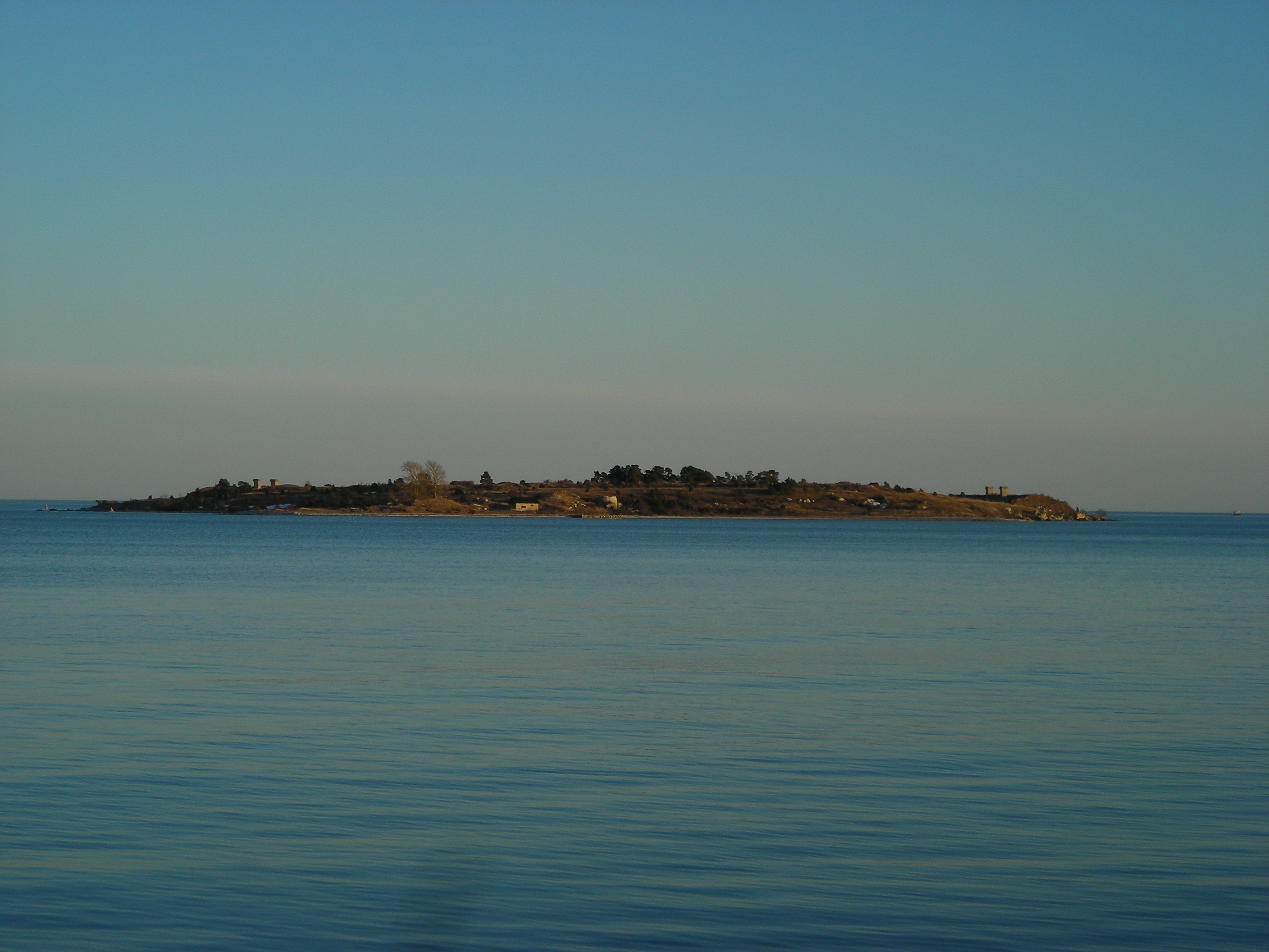 Enholmen from the harbor in Slite, Gotland